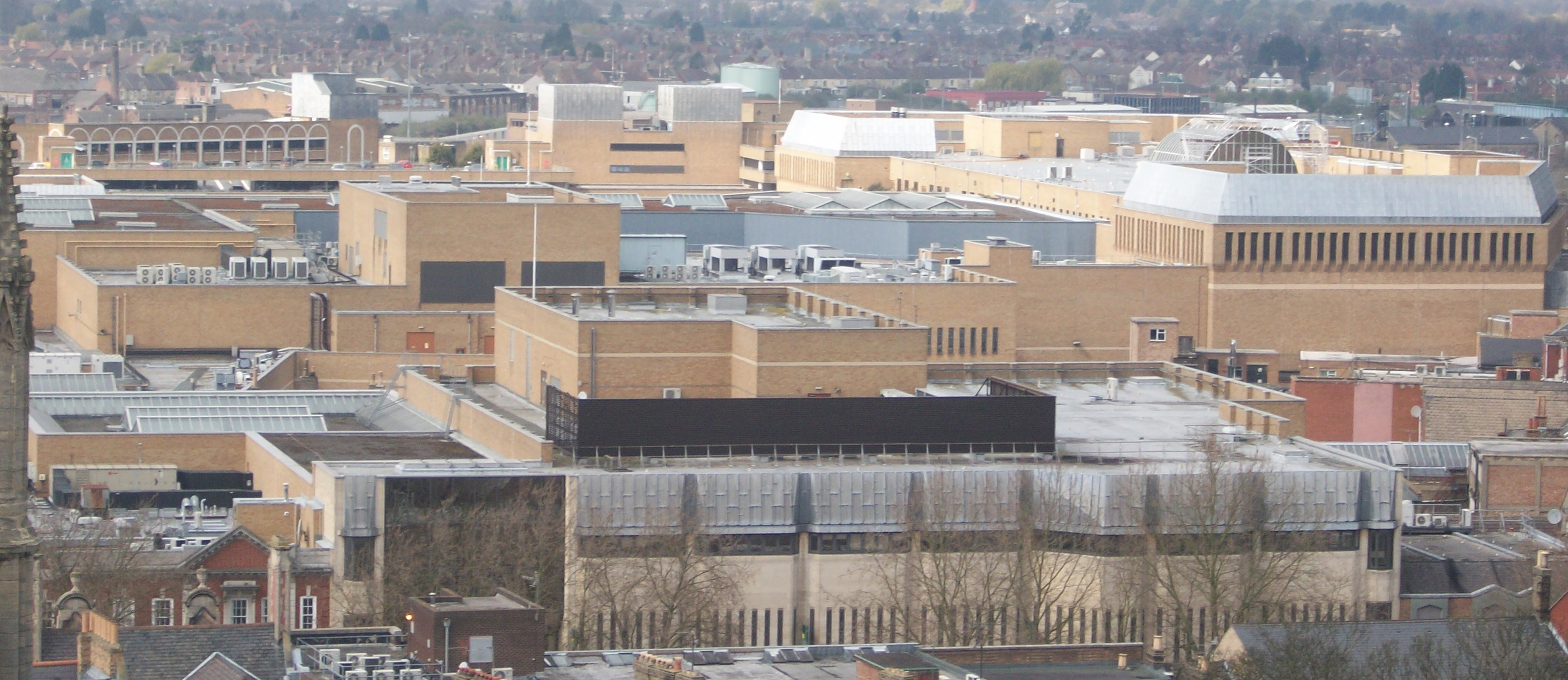 View of Queensgate from the top of the Cathedral